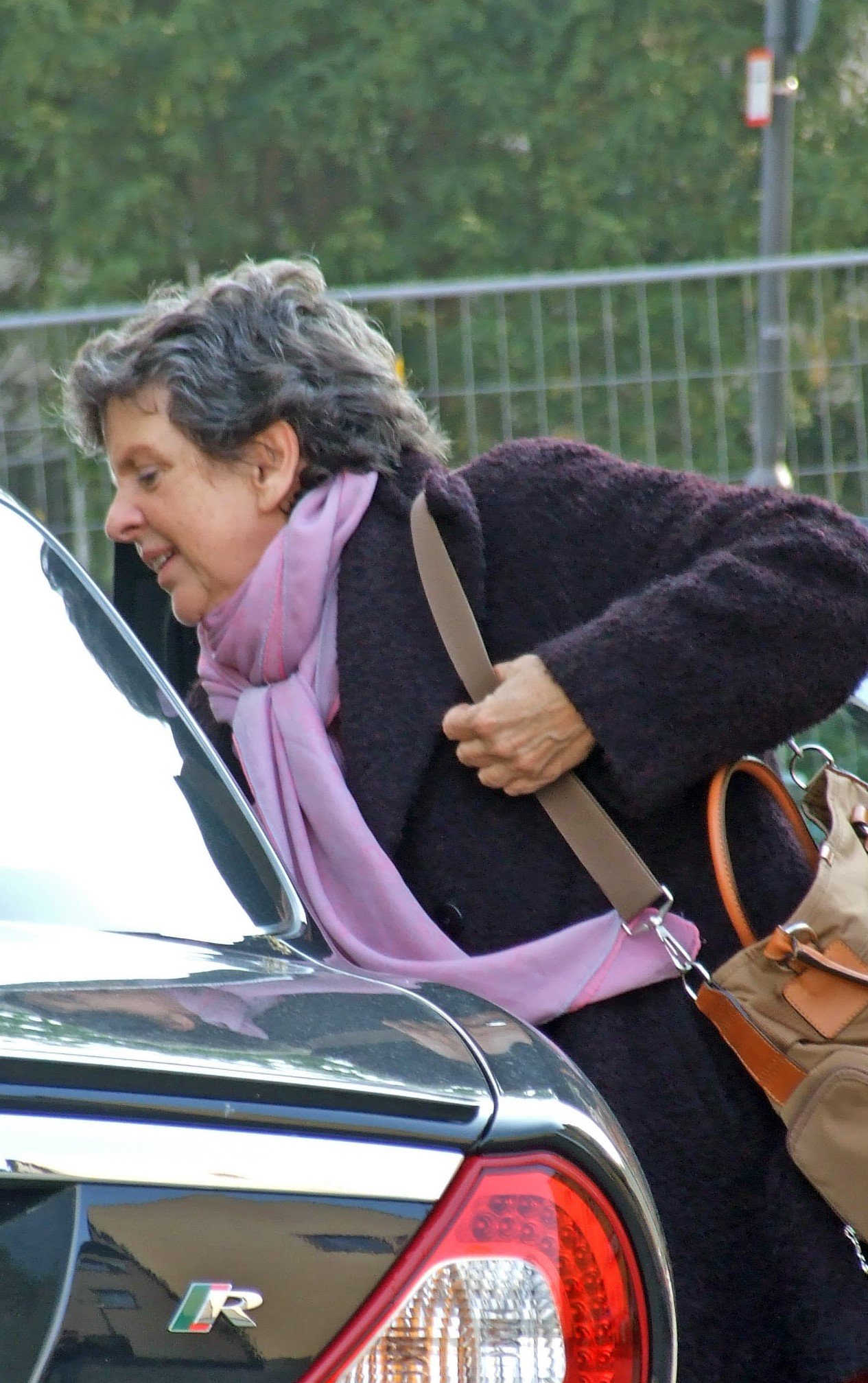 Ana Chumachenco, Kronberg 2009